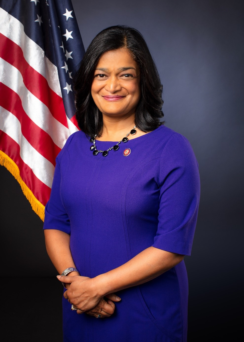 Pramila Jayapal, official portrait, 116th Congress